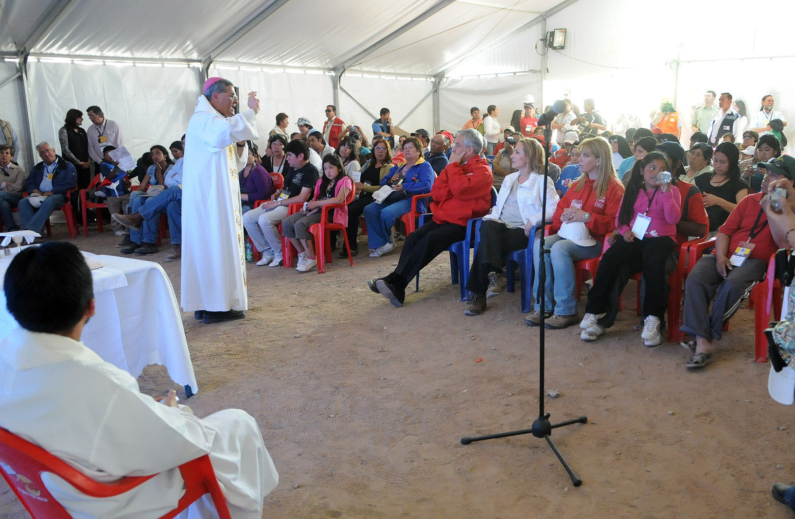 Mass for the family members in Campamento Esperanza at San Jose Mine near Copiapo, Chile.